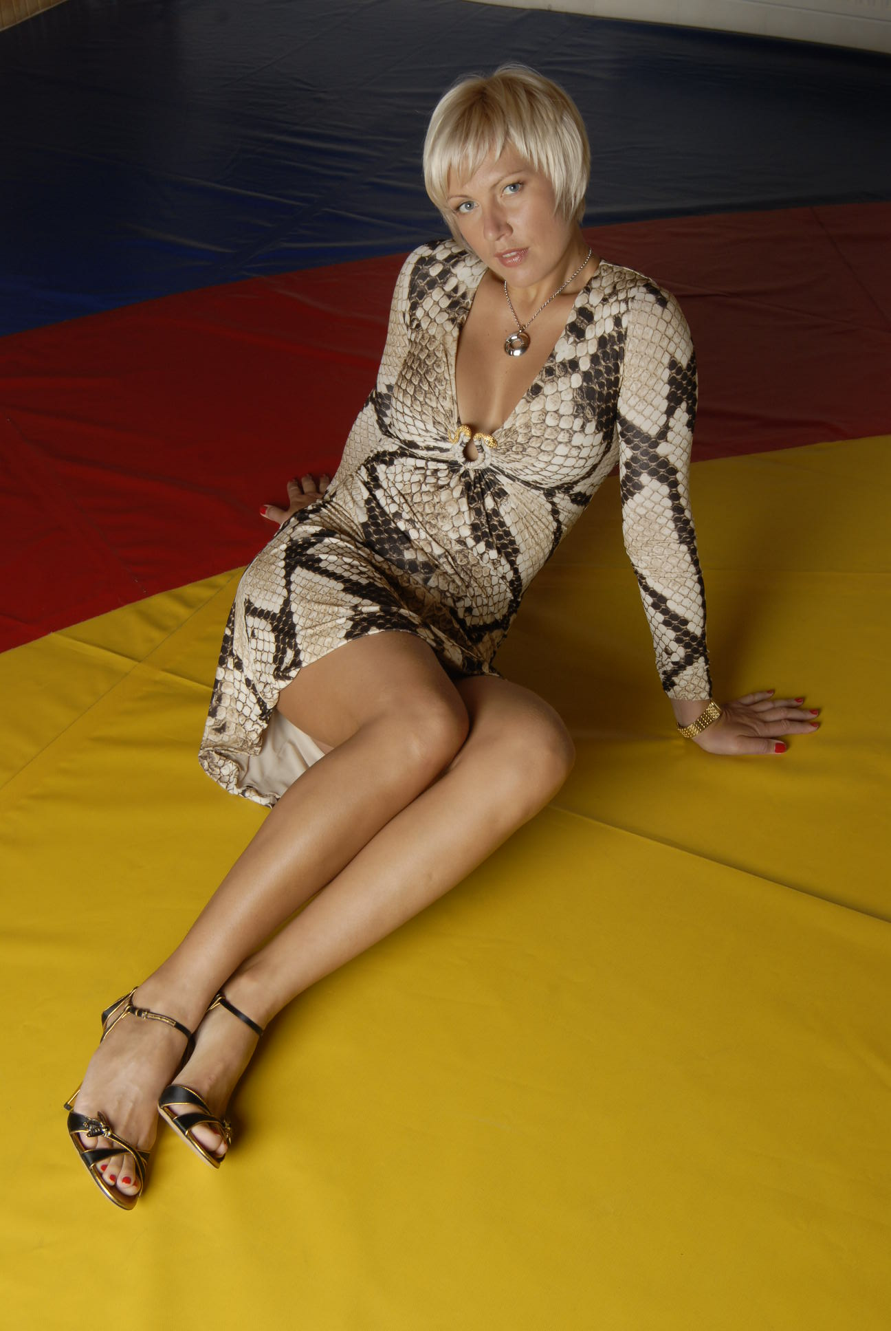 Ragozina Natalia, russian boxer